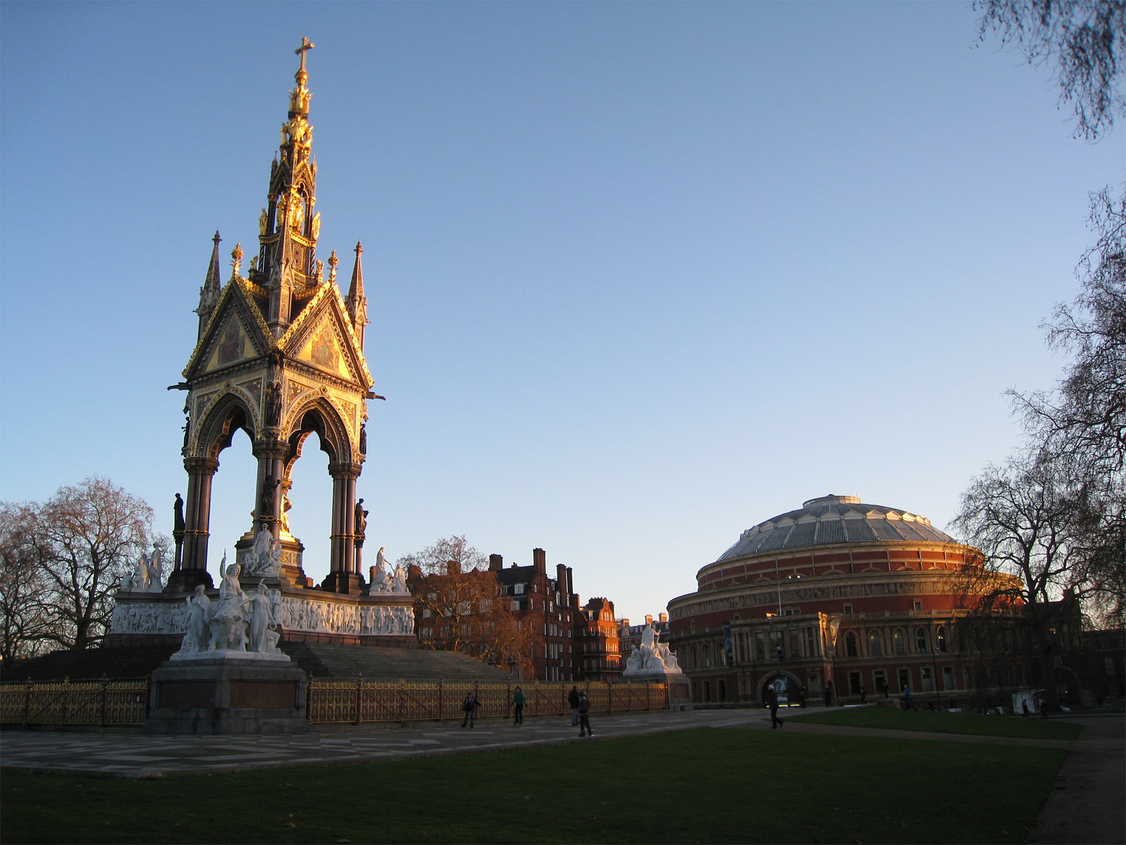 The Albert Memorial with the Royal Albert Hall in the background.